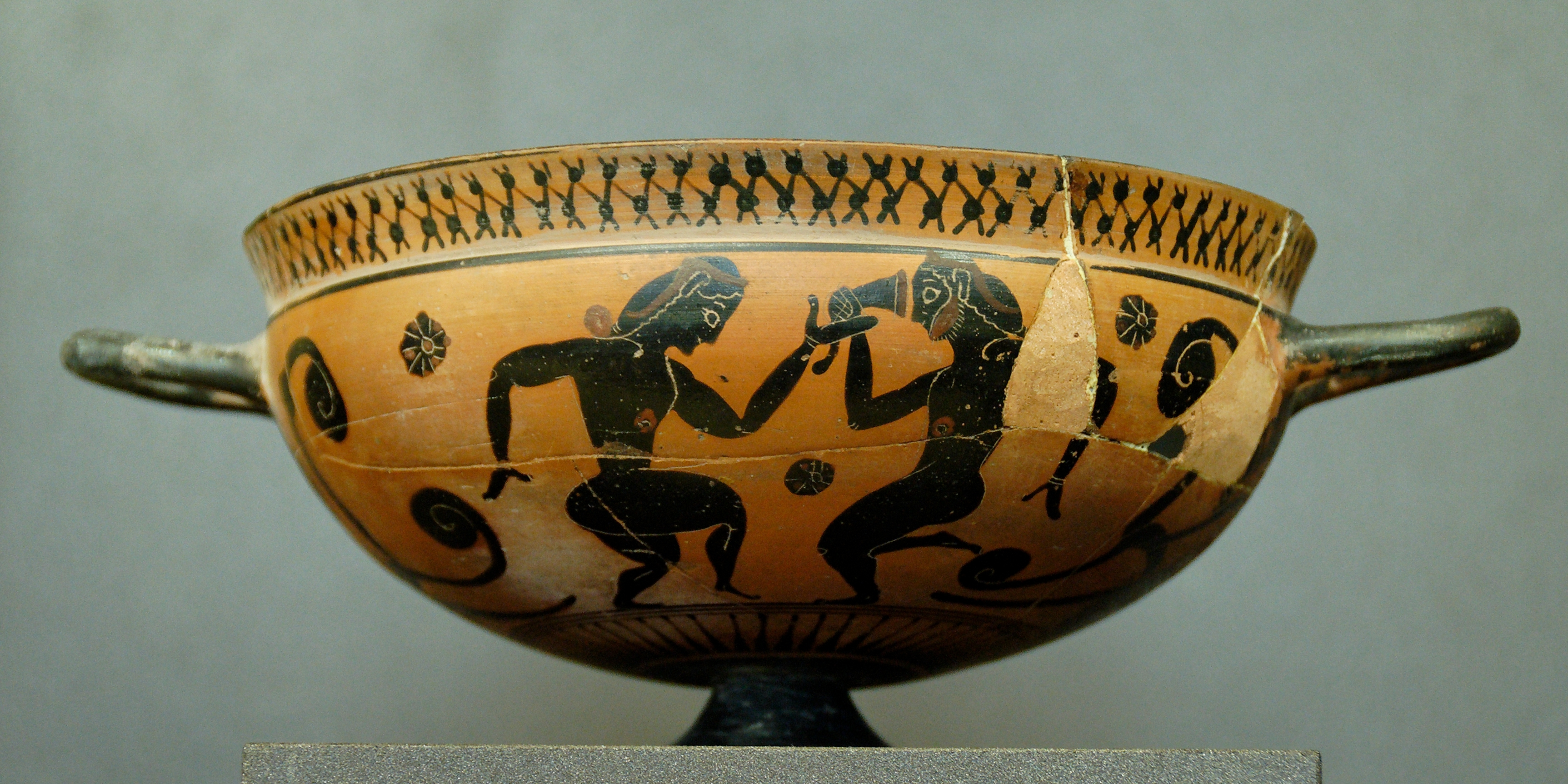 Komos scene. Attic black-figure komast cup, ca. 560 BC.